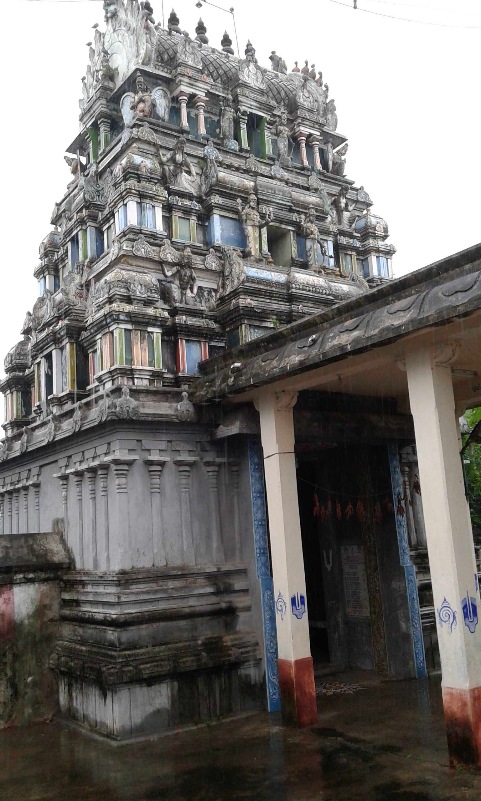 Thirukkavalampadi